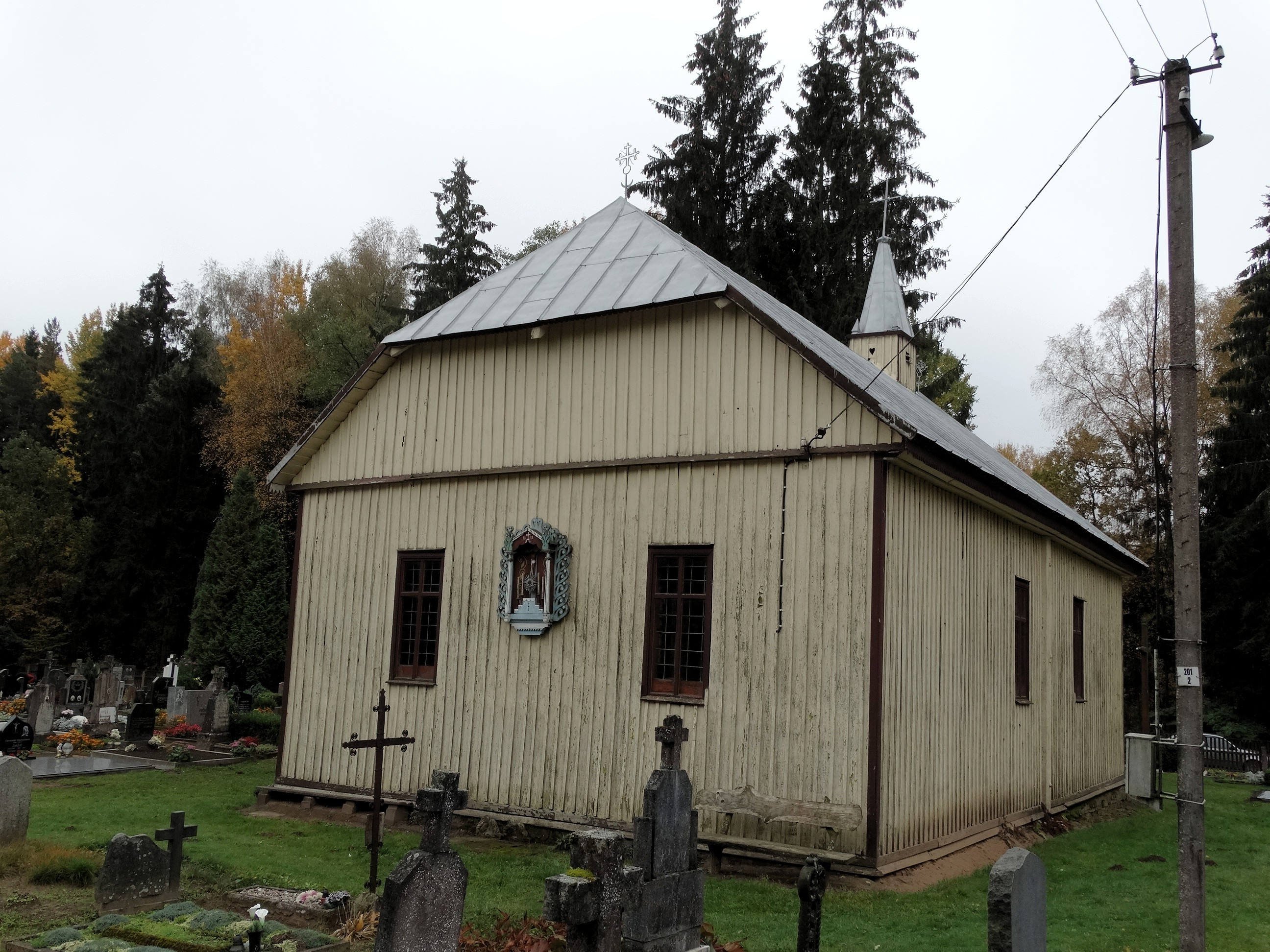 Chapel in cemetery, Plieniškiai, Šakiai district, Lithuania